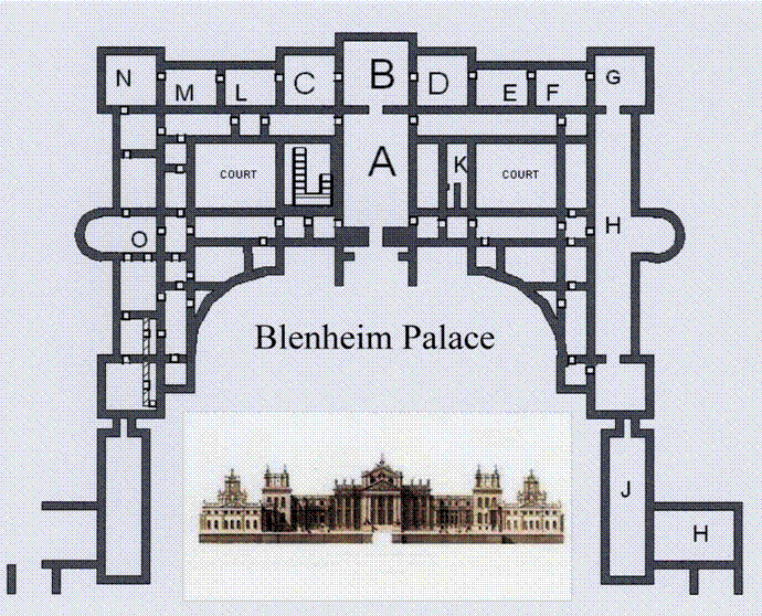 Unscaled and simplified plan of Blenheim Palace.